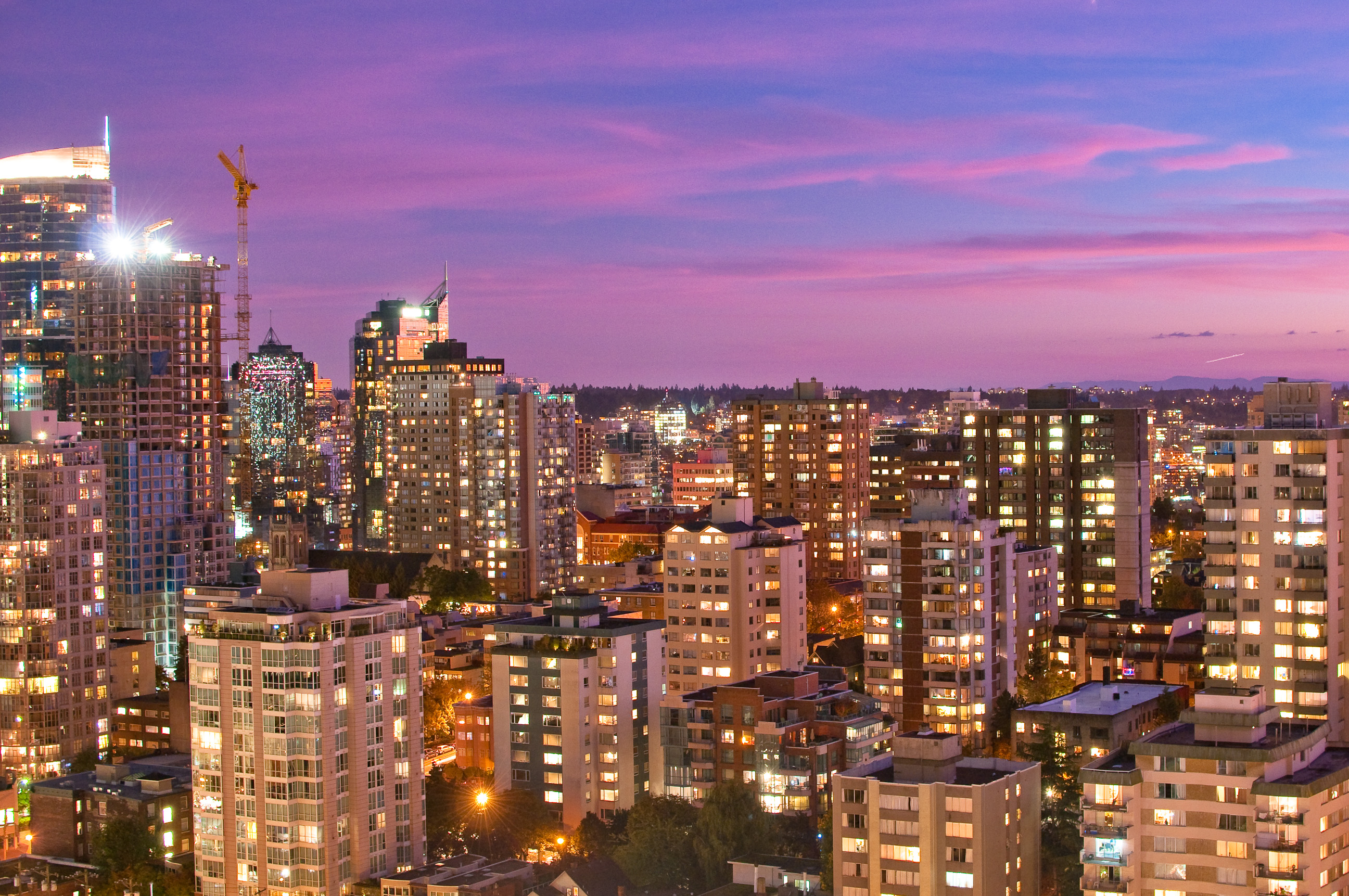 Went to check out my buddies' new pad and hang out yesterday. He definitely has access to some nice views off the balcony. Was lucky to be able to catch a fairly neat looking sky last evening.